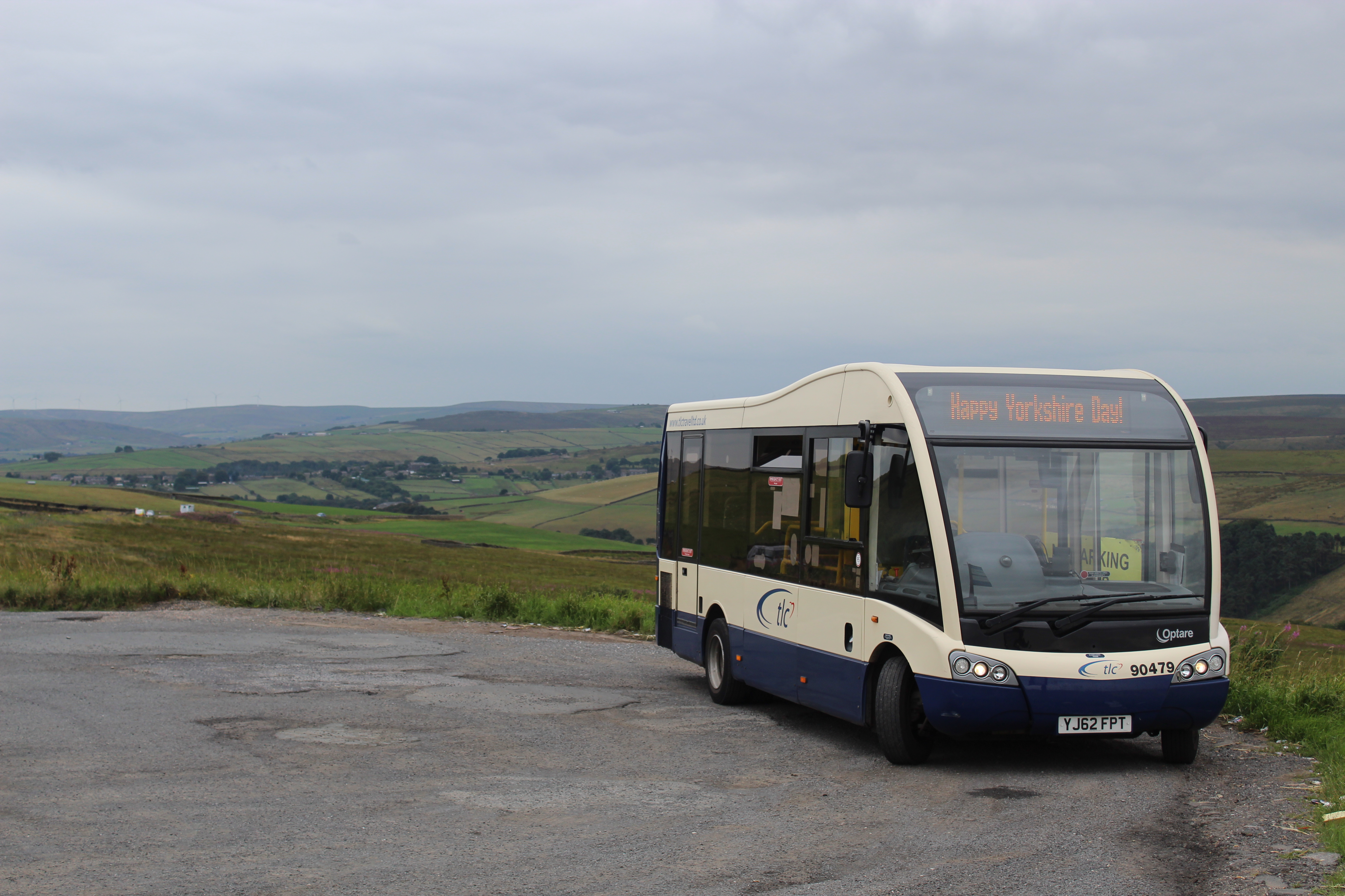 TLC Travel Optare Solo M7100SE-R YJ62FPT (90479) at Crimsworth turning circle near Hebden Bridge, West Yorkshire on 1 August 2018, about to operate a 594 service back to Hebden Bridge railway station. The rolling hills of Brontë Country pan out behind the bus, which displays "Happy Yorkshire Day!" on the destination blind, celebrating the annual tradition in the county of Yorkshire. This bus was the first Optare Solo SE-R to be produced, entering service with TLC Travel in January 2013.